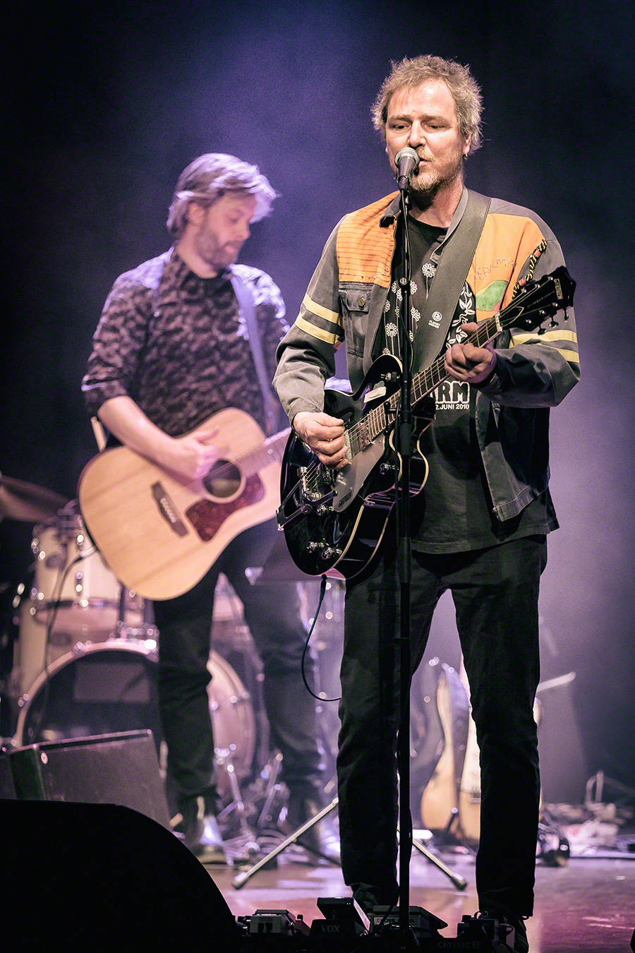 Lars Bjerkmann performs at Cosmopolite Scene in Oslo on 5.3.16. Lineup:Jørgen Gaardvik (drums)Johannes Sæbøe (bass)Baard Slagsvold (piano / ukulele)Arne Sæther (hammond organ)Bitten Forsudd (tuba / choir)Mona Mauseth Evensen (choir)Ingrid Pedersen (choir)Andreas Løvold (trumpet)Mathias Hole (trombone)Michael Strütt (tenor saxophone)Lius Baruch (percussion)Marius Gengenbach (guitar)